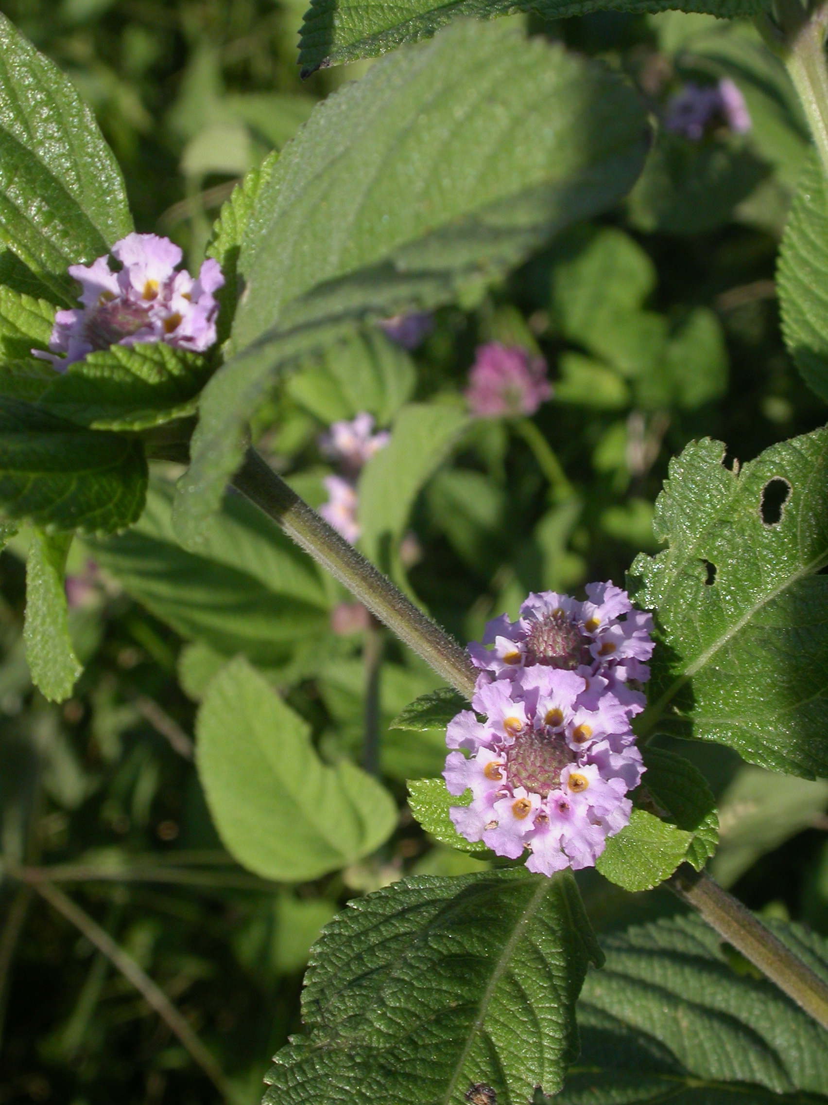 Lippia alba var. lanceolata, shoots with leaves and flowers. Lemon-scented variety. Grown together with several other aromatic plants (mostly mints), at the “Julio Hirschhorn” experimental agricultural facility in La Plata, Buenos Aires province, Argentina.